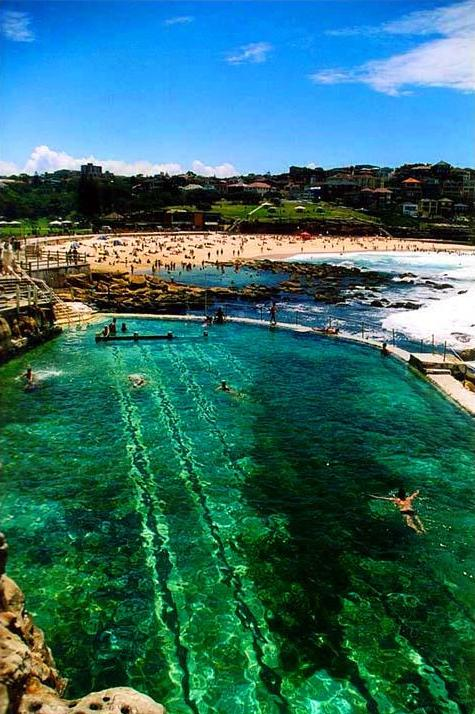 Pool at Bronte Beach, New South Wales